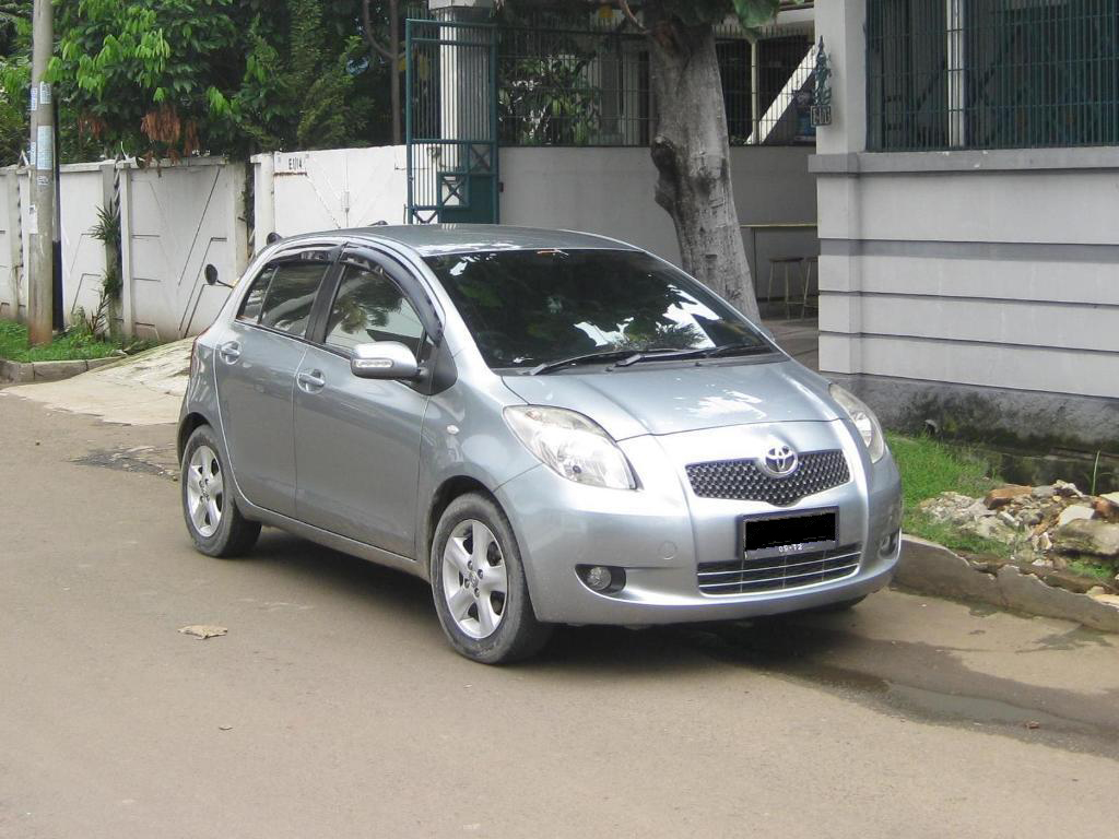 2007 Toyota Yaris 1.5 E (NCP91), photographed in Jakarta, Indonesia.